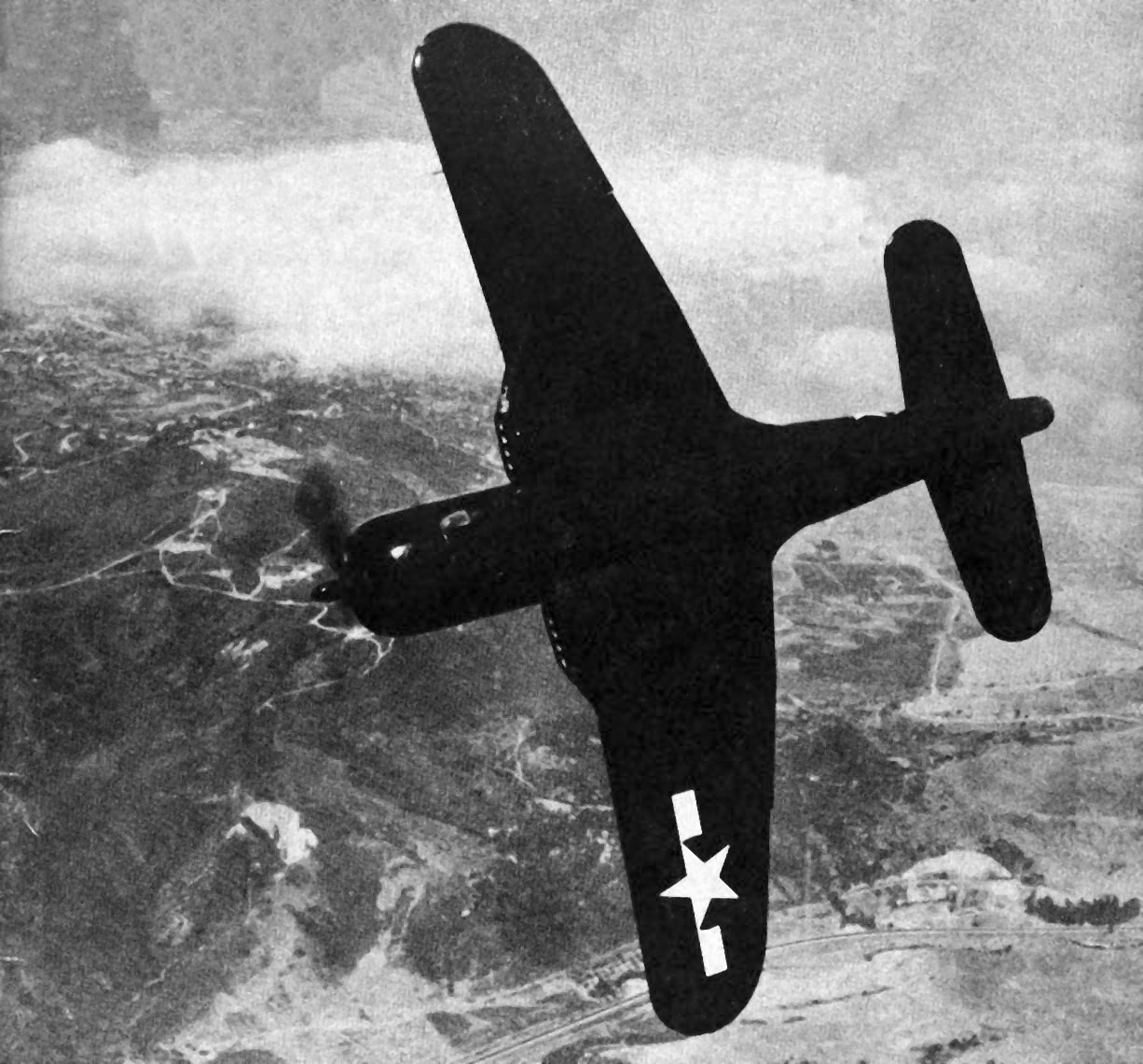 Underside of a U.S. Navy Ryan FR-1 Fireball of fighter squadron VF-66, in 1945.